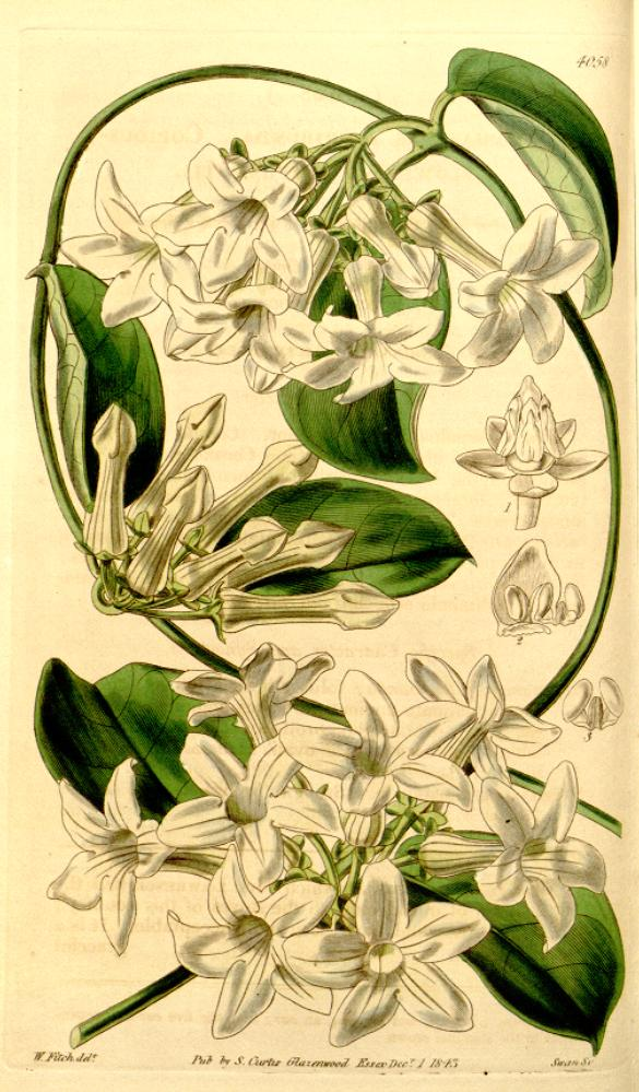 Illustration of Stephanotis floribunda